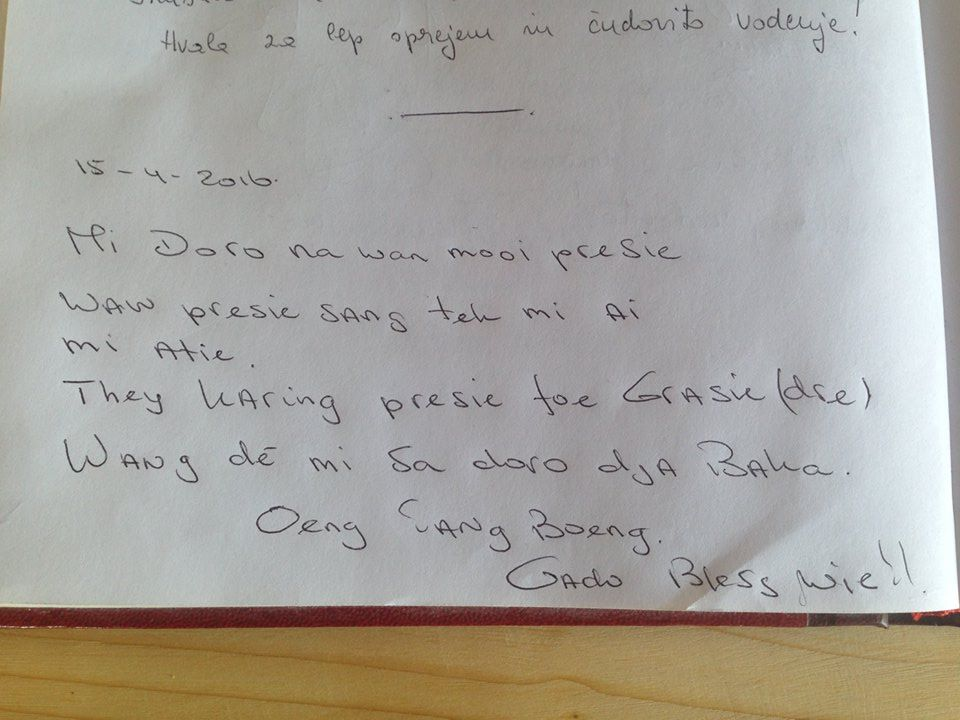 The Land of Hayracks (Šentrupert, Slovenia): a message in the guestbook written in Sranan Tongo (a lady from Suriname, South America). Text translation: I have arrived at a beautiful place. A place which caught my eyes, my heart. They call it place of grass. One day I will return again. Please be well. God bless you!!